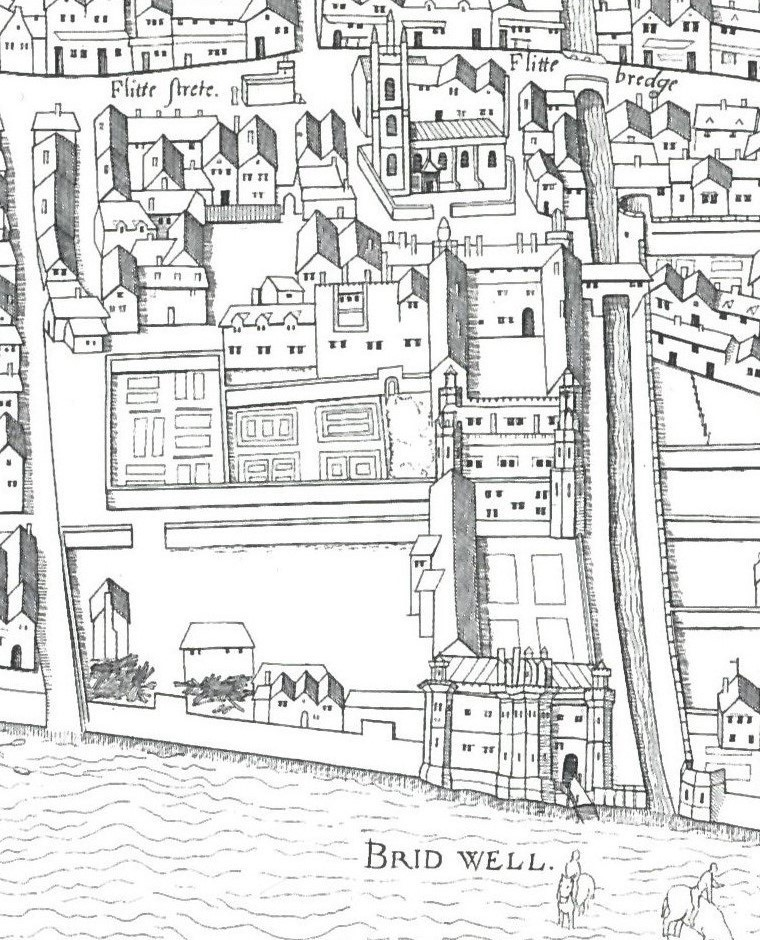 Detail from the "Copperplate" map of London, surveyed 1553-9, showing the former Bridewell Palace, with its frontage on the River Thames, and extending along the bank of the River Fleet towards St Bride's Church (visible in the background).